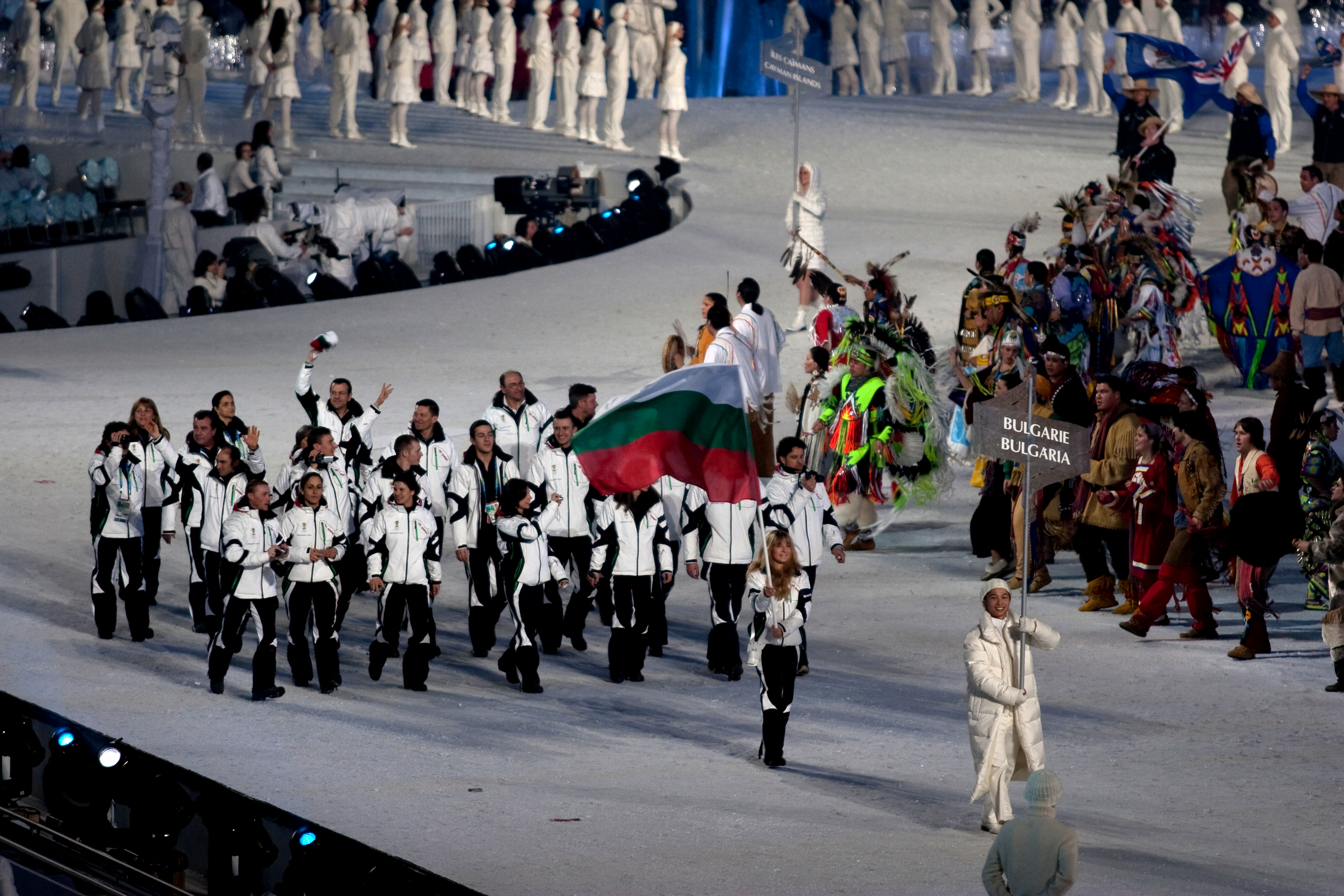 The athletes from Bulgaria entering the stadium at the opening ceremonies of the 2010 Winter Olympics